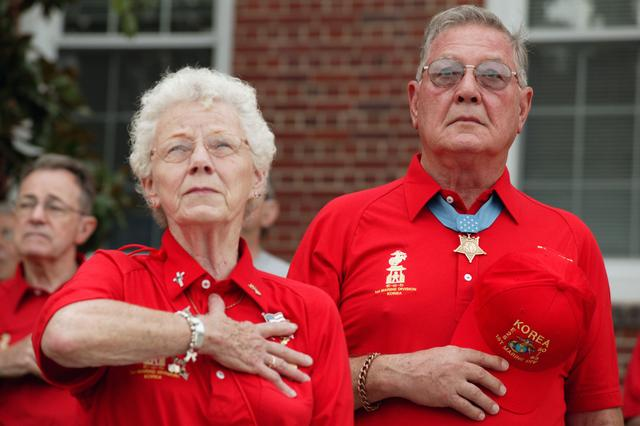 Medal of Honor (MoH) recipient Duane E. Dewey (right) and his wife, both honored guests, stand at attention with their hands over their hearts during the playing of the National Anthem during the morning colors ceremony at Marine Corps Recruit Depot (MCRD) Parris Island, South Carolina.